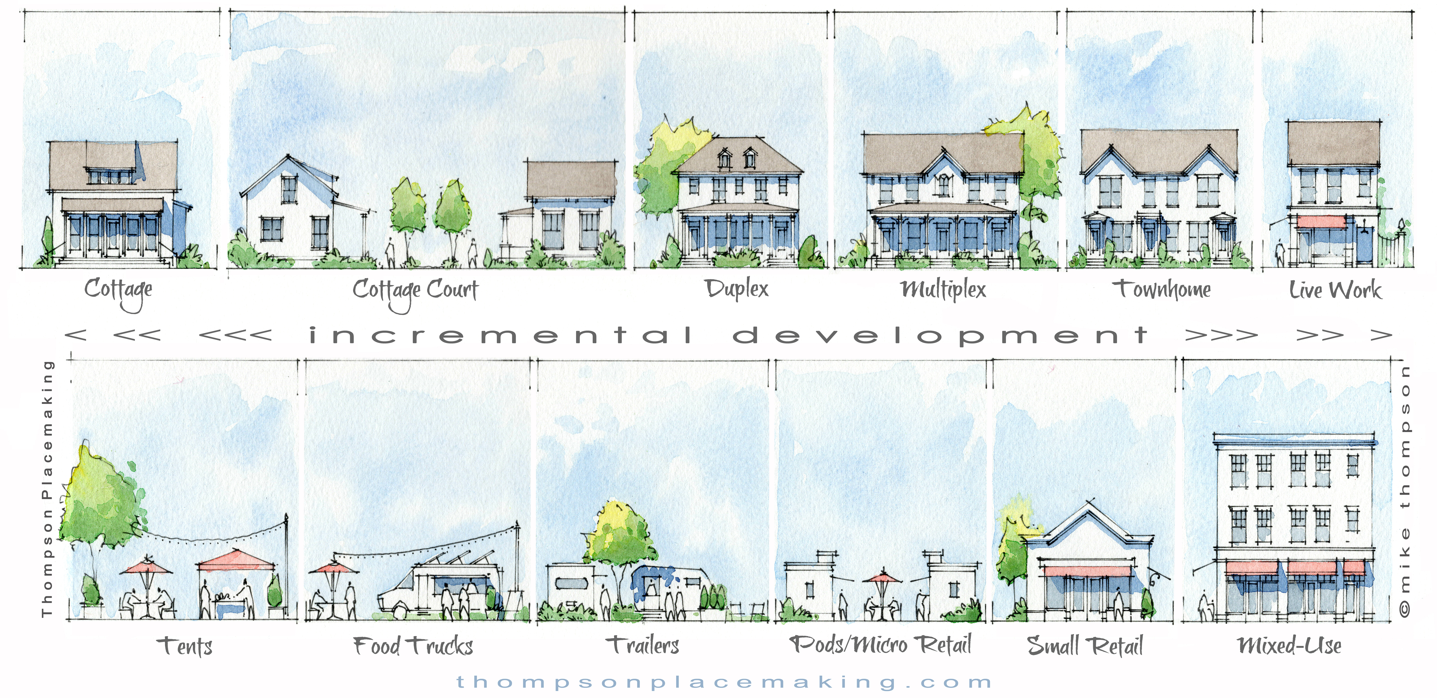 EPSON MFP image